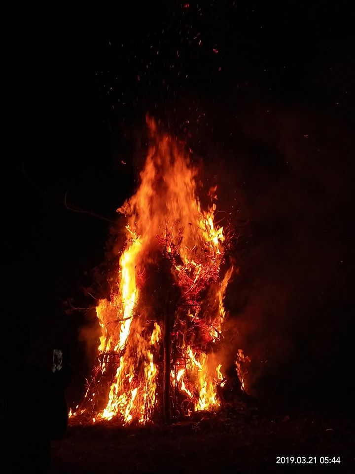 khadikolvan - Holi Utsav